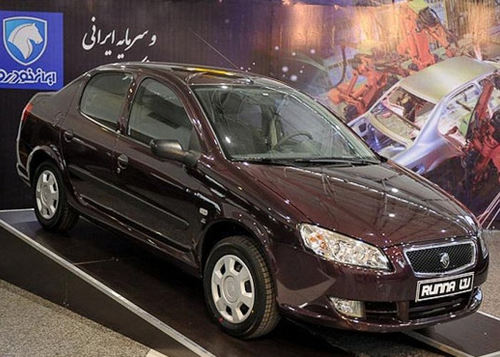 Runna2